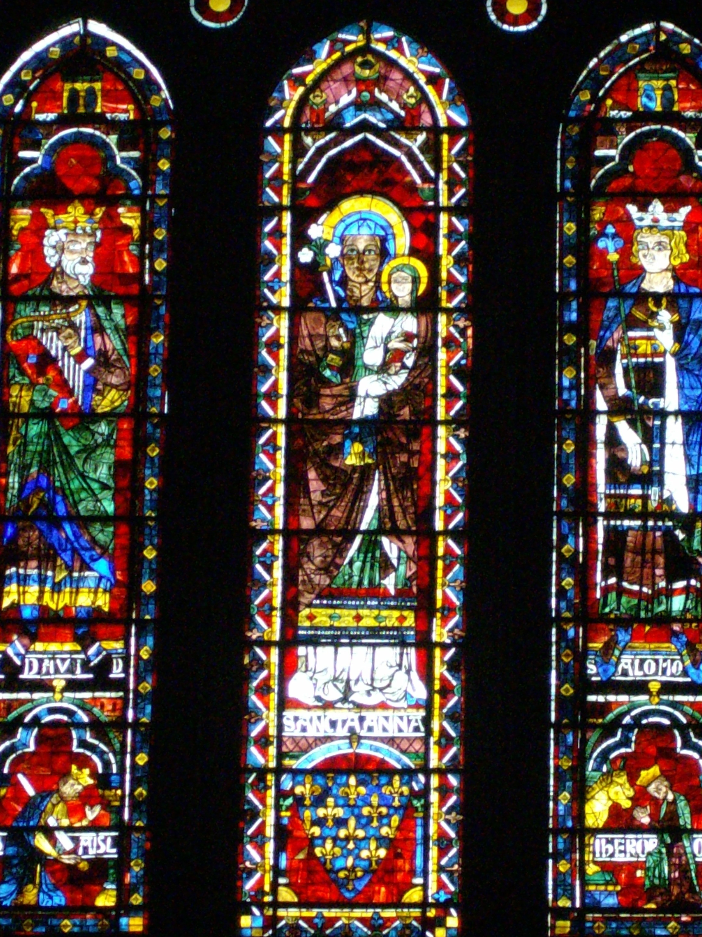 Stained glass windows of the Chartres Cathedral in Chartres (France)